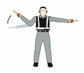 MARSHALLING SIGNALS from a signalman/marshaller to an aircraft / STANDARD EMERGENCY HAND SIGNALS. Description: "Turn right" (from pilot’s point of view). With left arm and wand extended at a 90-degree angle to body, make ‘come ahead’ signal with right hand. The rate of signal motion indicates to pilot the rate of aircraft turn.